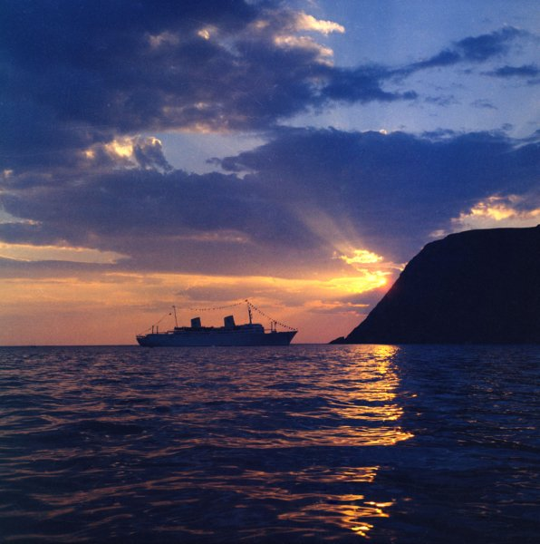 Reproduction ID: P98223 Maker: Marine Photo Service Date: circa 1970 Materials: Cellulose acetate negative This photograph is featured in Waterline, a new photographic exhibition revealing the joys and trials of the heyday of cruising. It's on at the National Maritime Museum until October 2011